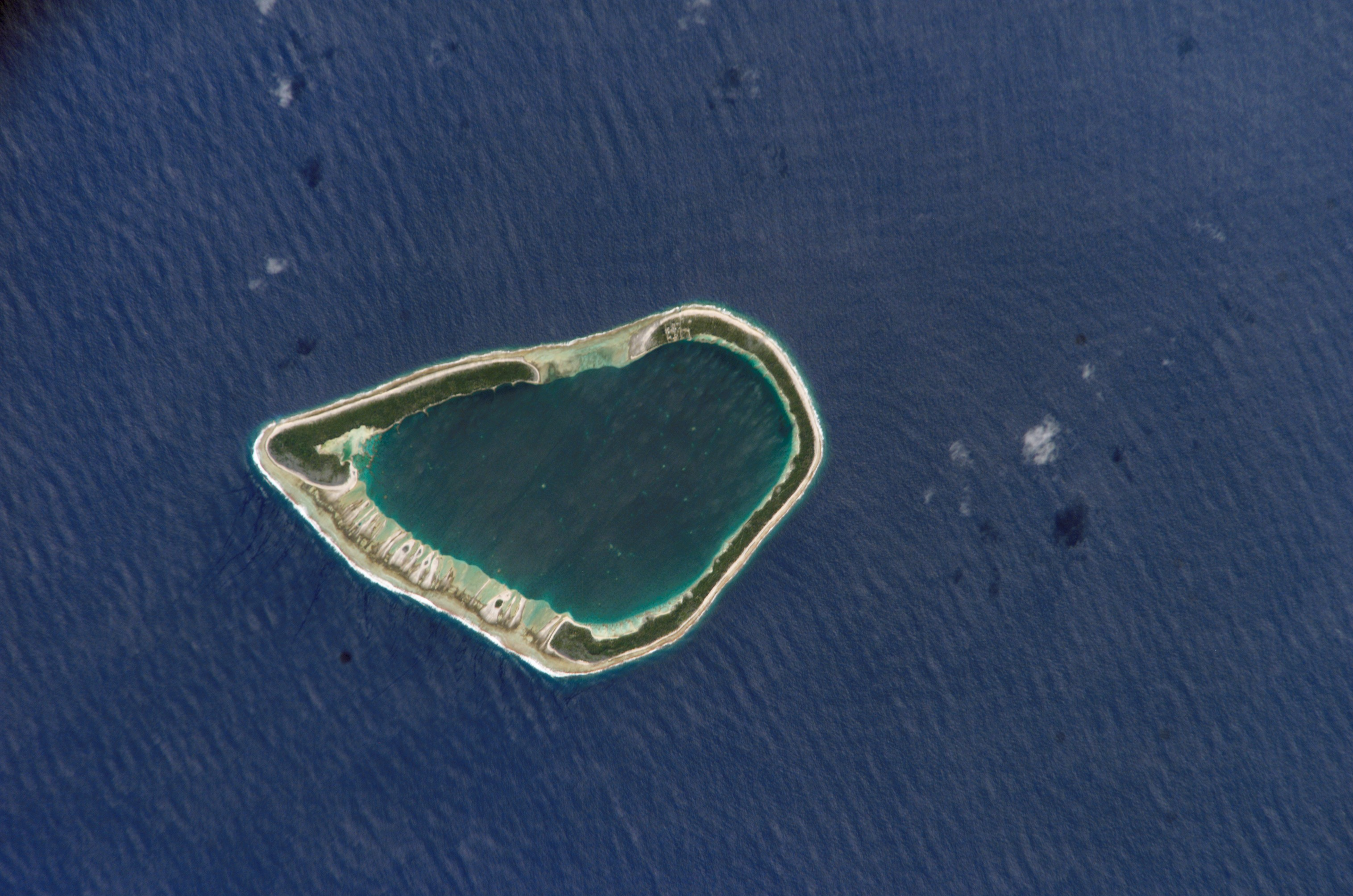 NASA Astronaut Image of Vairaatea Atoll (Tuamotu Archipelago, French Polynesia) in the Pacific Ocean